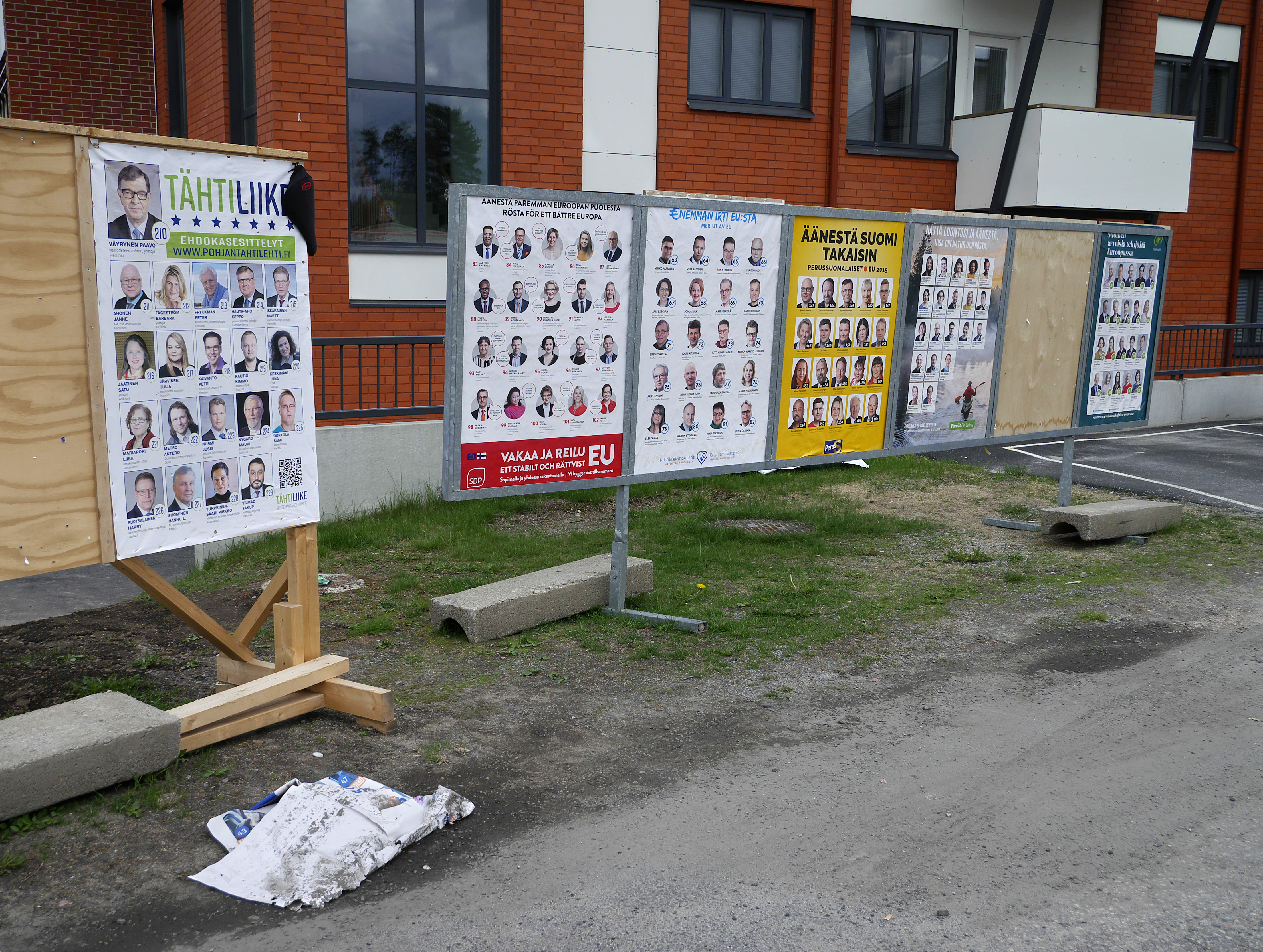 European Parliament election 2019 posters in Finland.